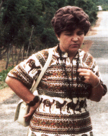 Alla Genrichovna Masevitch in Kavalur, India 1977